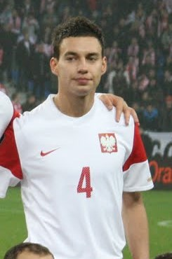 Polish football player Maciej Sadlok